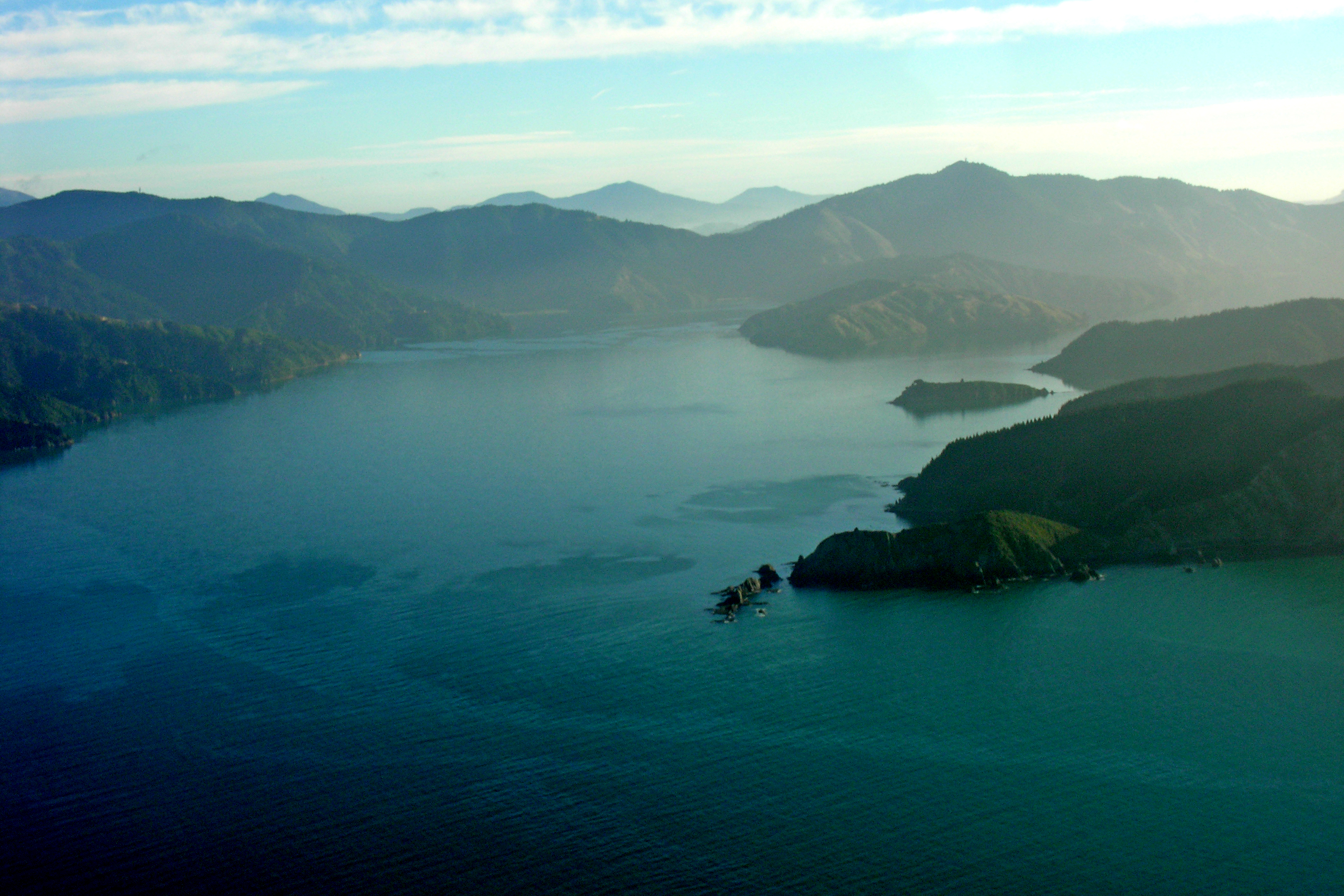 Port Underwood, Marlborough, New Zealand. En route Wellington to Koromiko.